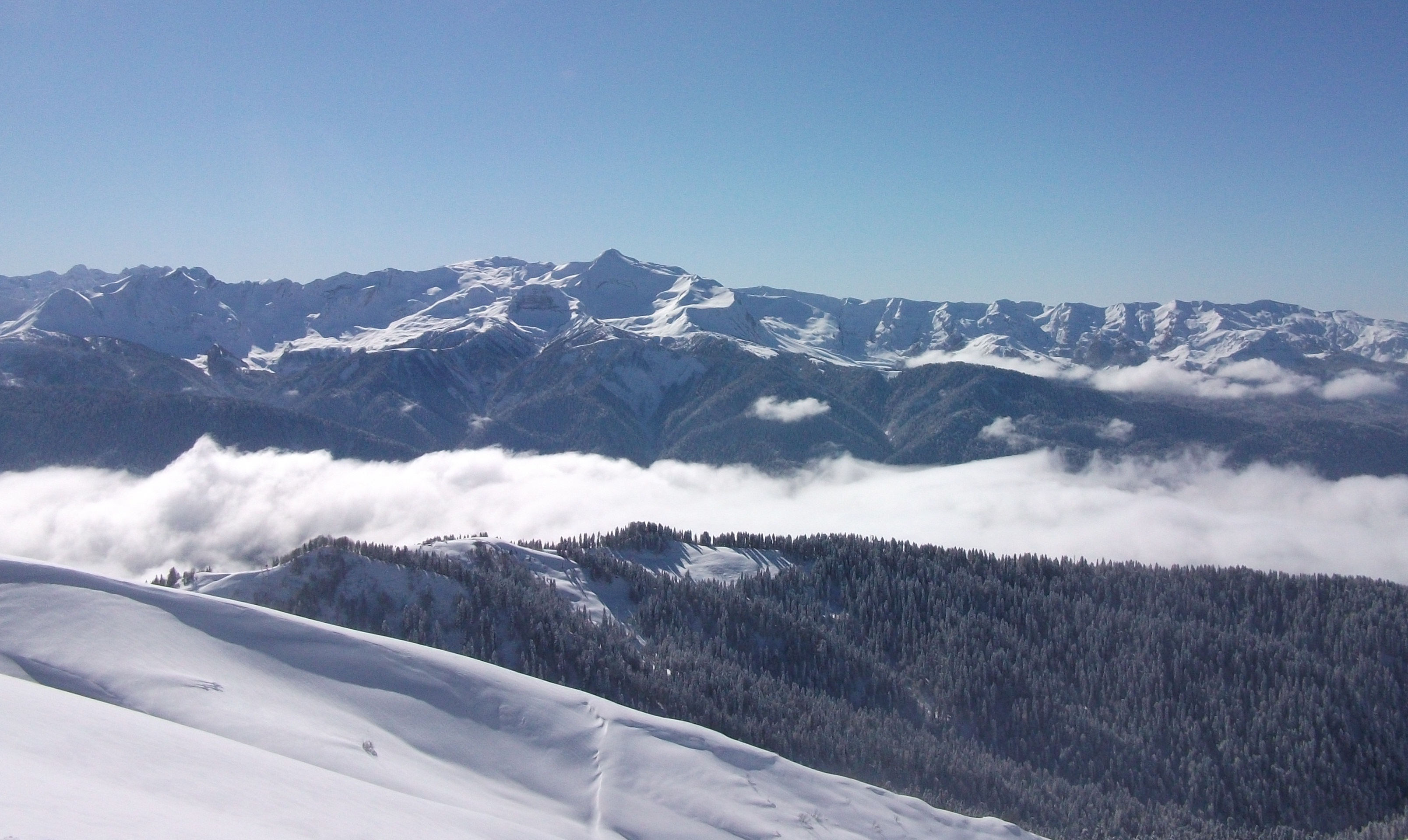 View of Arabika Massif from Aibga Ridge. Krasnaya Polyana, Rosa Khutor Alpine Resort.